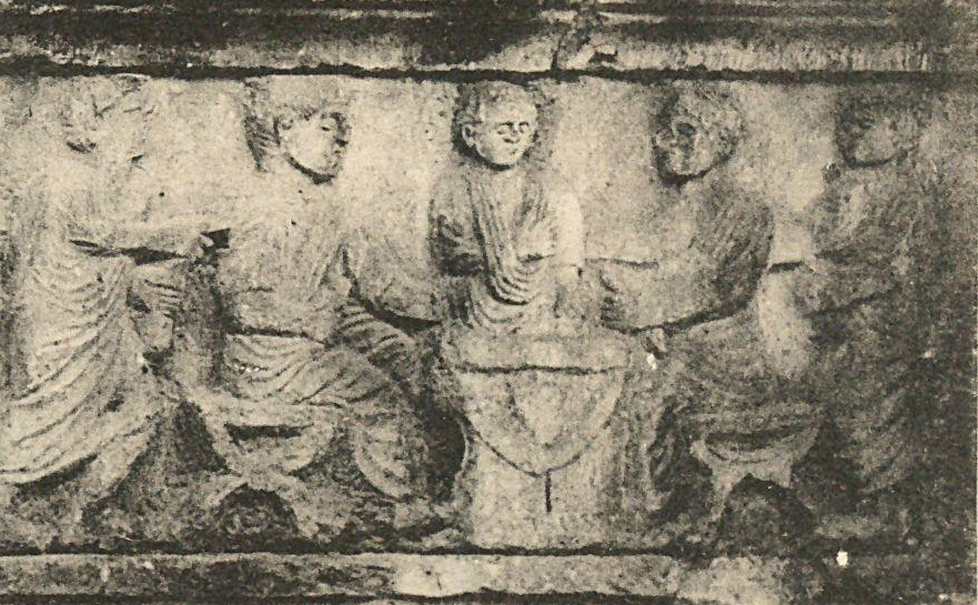 Arch of Augustus, Susa (Piedmont), Detail of the West Frieze